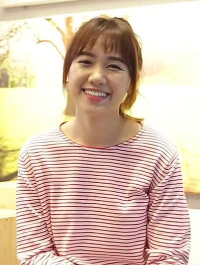 Hari Won in a promotional video for 49 ngày 2.